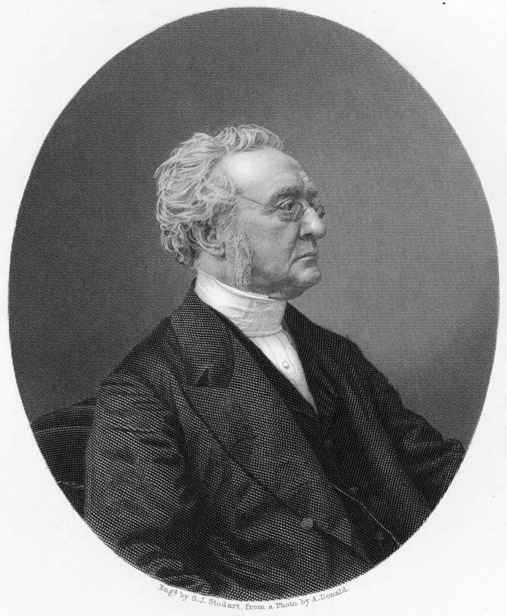 Portrait of the Reverend George Gilfillan (1813-1878)